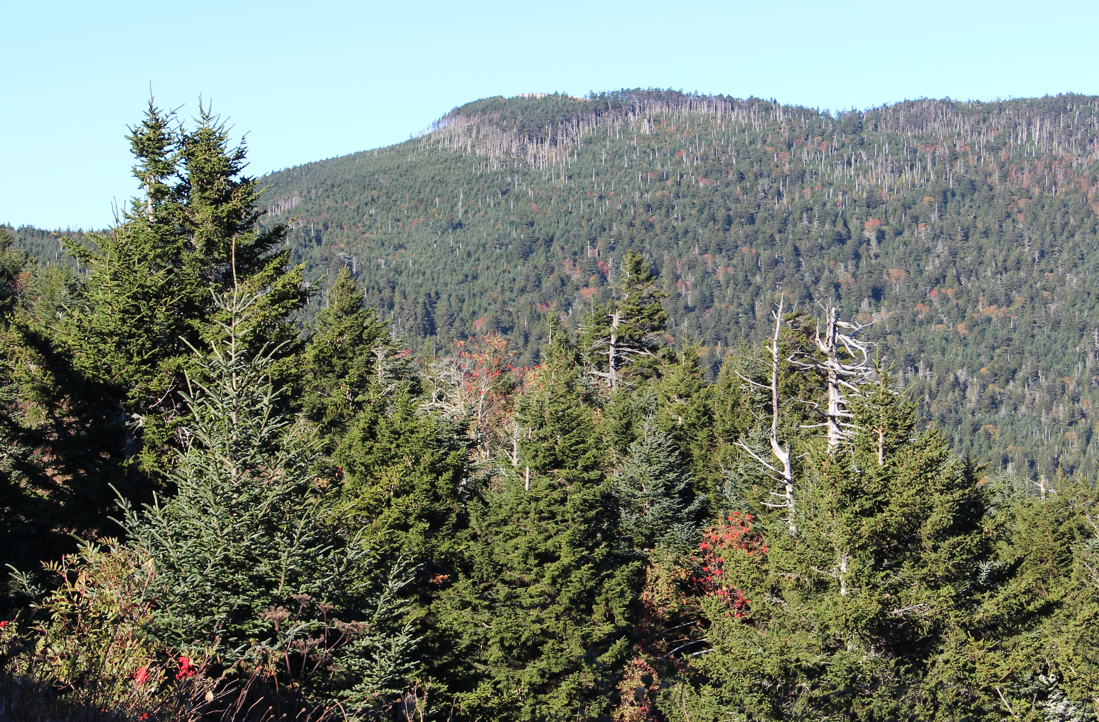 Mount Mitchell viewed from Mount Mitchell State Park Restaurant